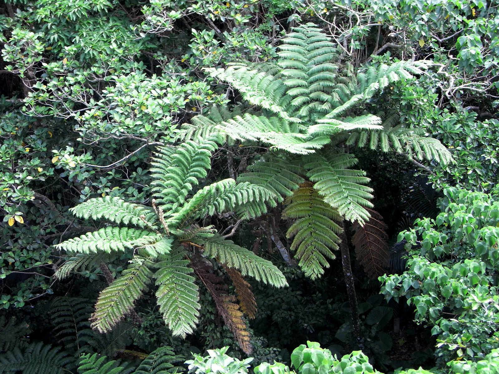 Cyathea lepifera, Ishigaki Island, Okinawa, Japan